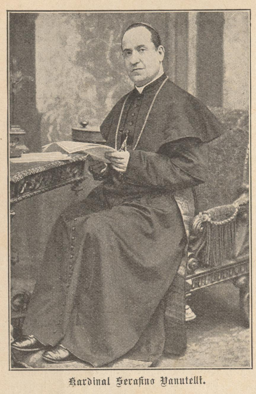 Serafino Vannutelli (1834-1917), Italian Cardinal